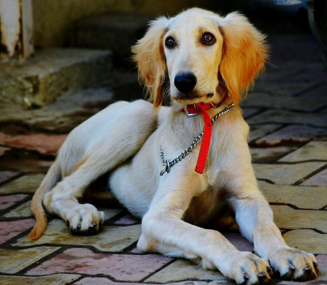 Pashmi, an Indian breed